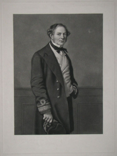 Old portrait of Admiral of the Fleet, Sir James Hope G.C.B.